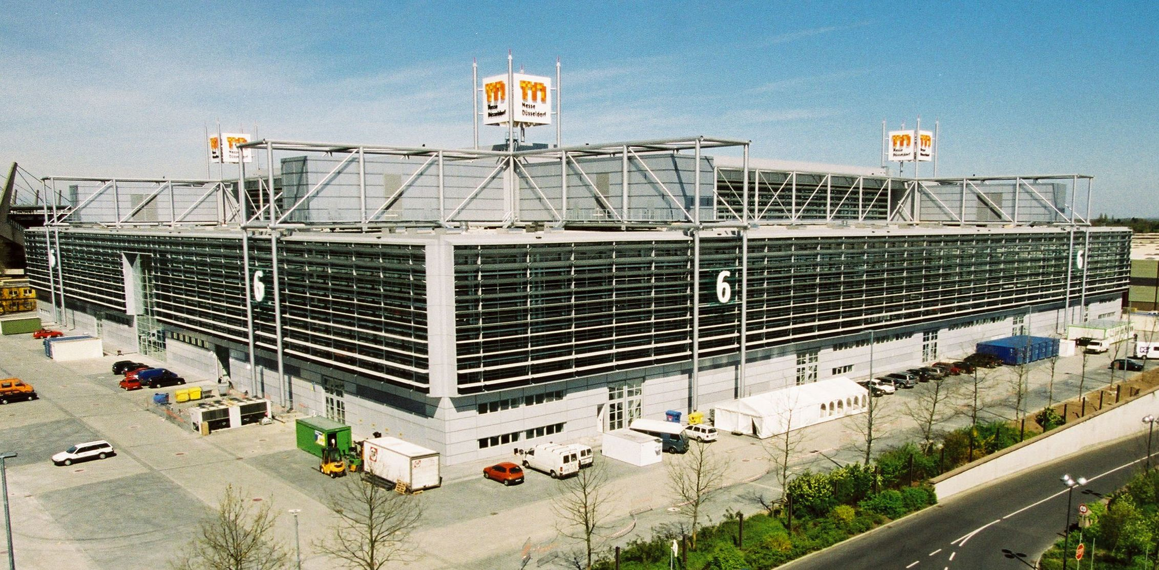 Hall 06 of Messe Düsseldorf GmbH